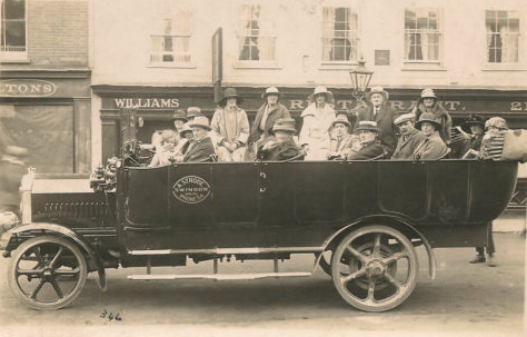 Photograph of a Belsize landaulette, registration number AM 2637, first registered 2 September 1912, in use as a charabanc, c. 1921. The name painted on the side of it is "A. Strode, Swindon". He acquired it in January 1920. See Early Motor Vehicle Registration in Wiltshire 1903-1914 (2006), p. 297.